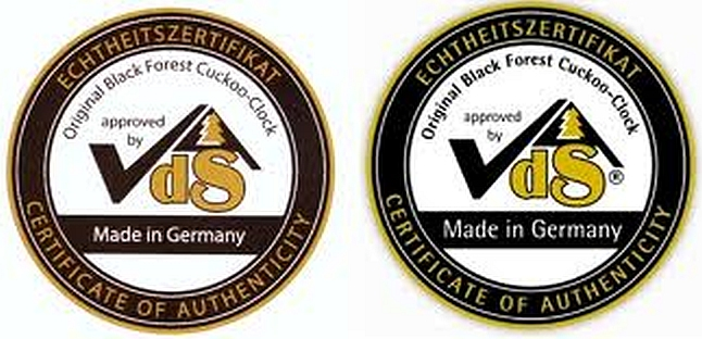 Comparison of Cuckoo Clock seals. Left is the early (1987-2006) seal. Right is the modern (post 2006) VDS seal on clocks originating from a manufacturer in the Black Forest Region registered with the syndicate. Designed by artist Benno Gasche from Schonach. Note the ® symbol on the modern seals.